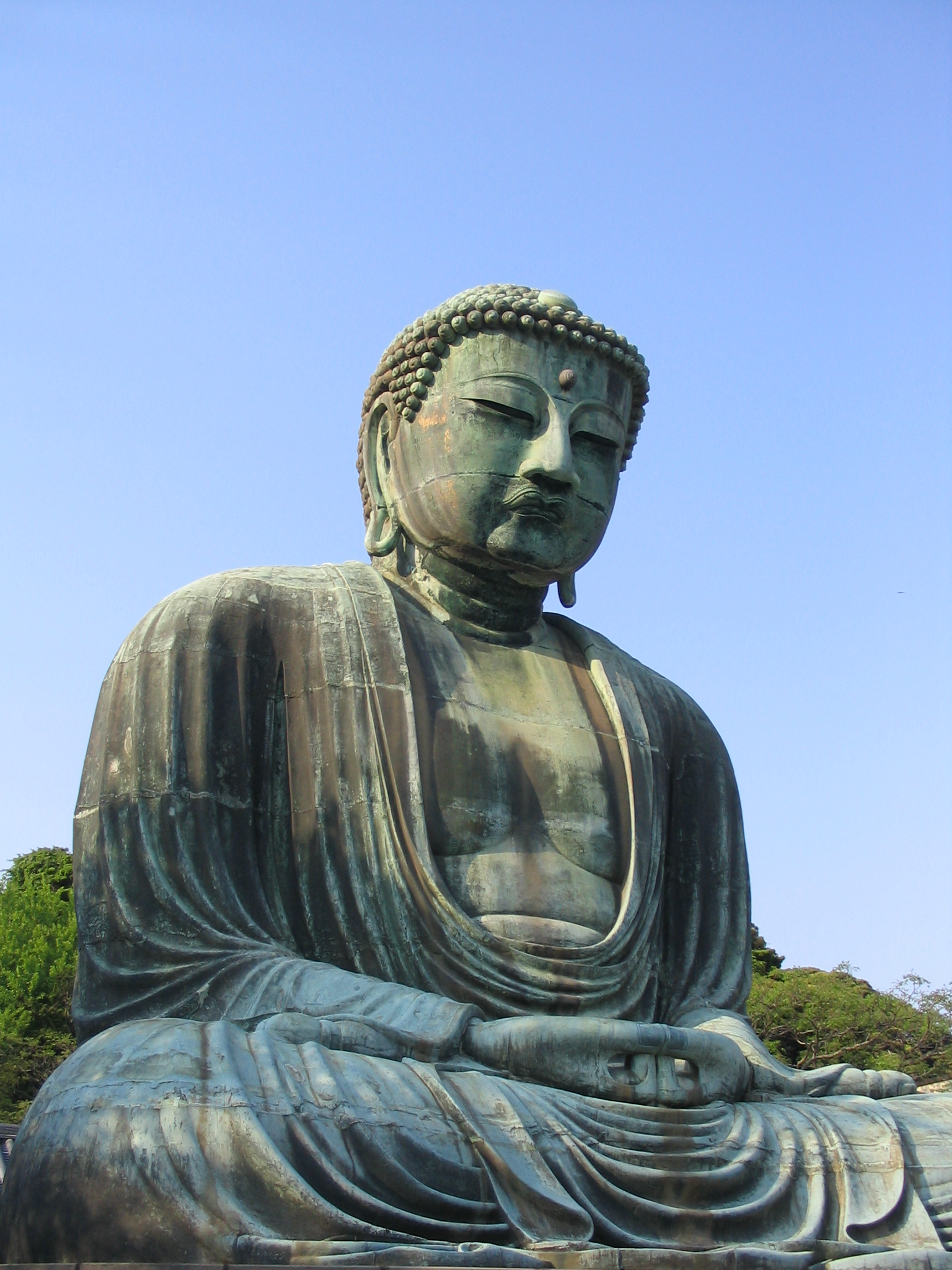 Buddha Daibutsu, Kamakura, Japan. This statue, made of bronze, is 11.40 m high and weights 93 t.